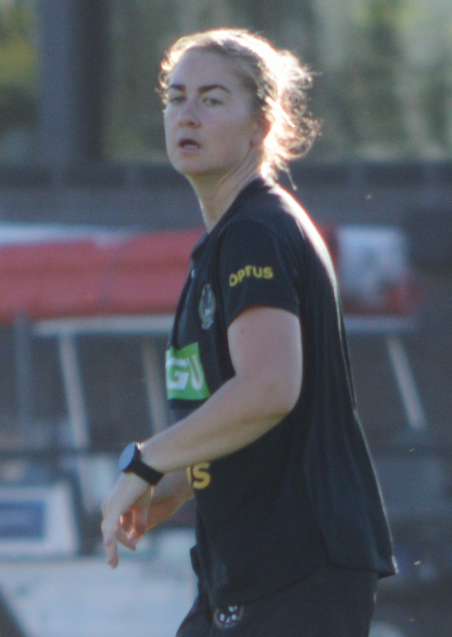 Penny Cula-Reid at the AFL Women's practice match between Collingwood and Melbourne in January 2018